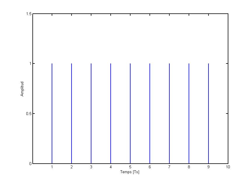 deltas